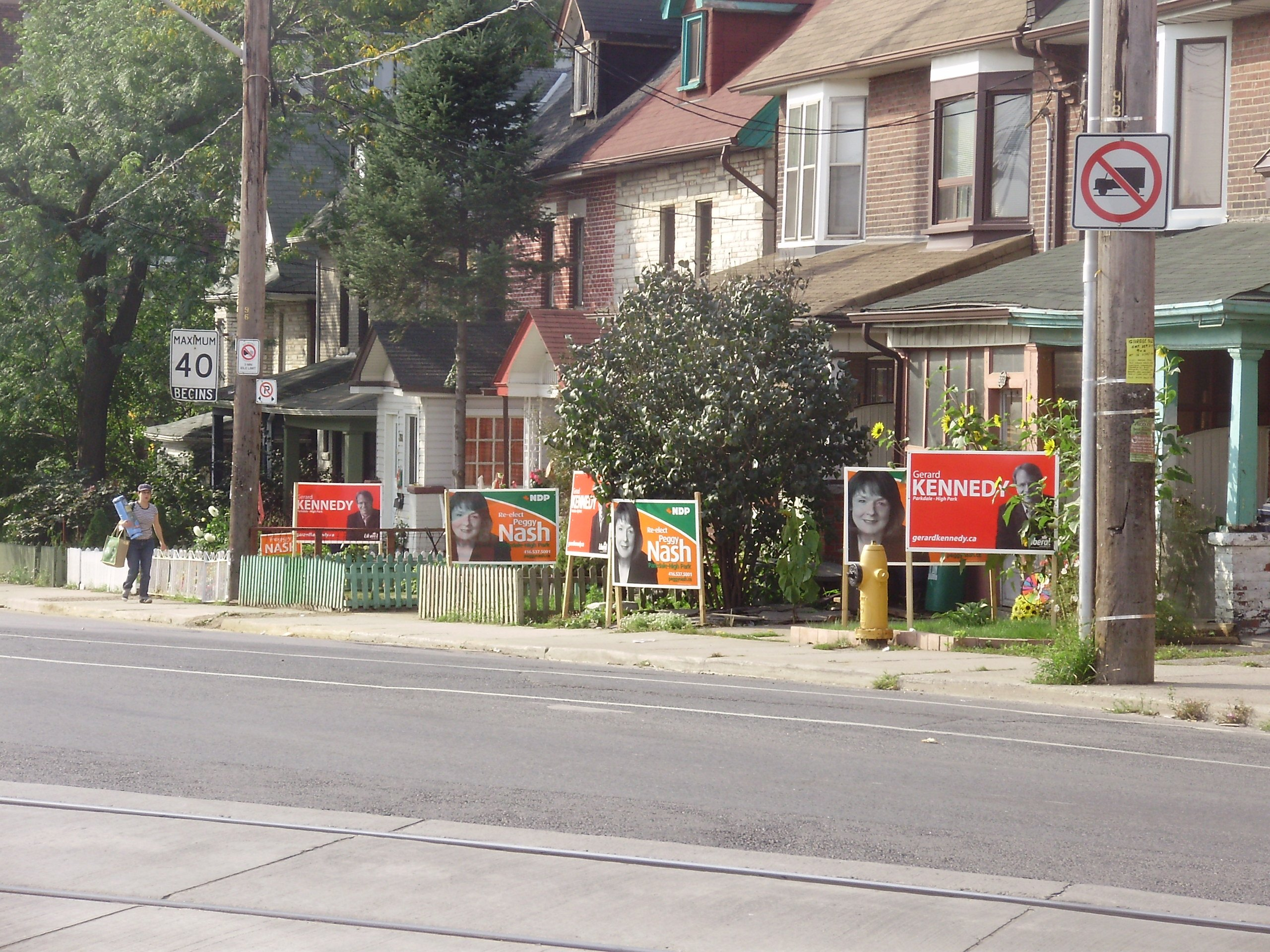 Liberal and New Democratic placards line the sidewalk along Sorauren Avenue in the Toronto riding of Parkdale—High Park as candidates campaign in the 2008 Canadian federal election.